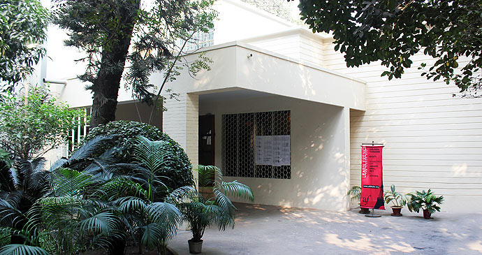 Photo by Vasker Jaistha Biswas for AFD/2012